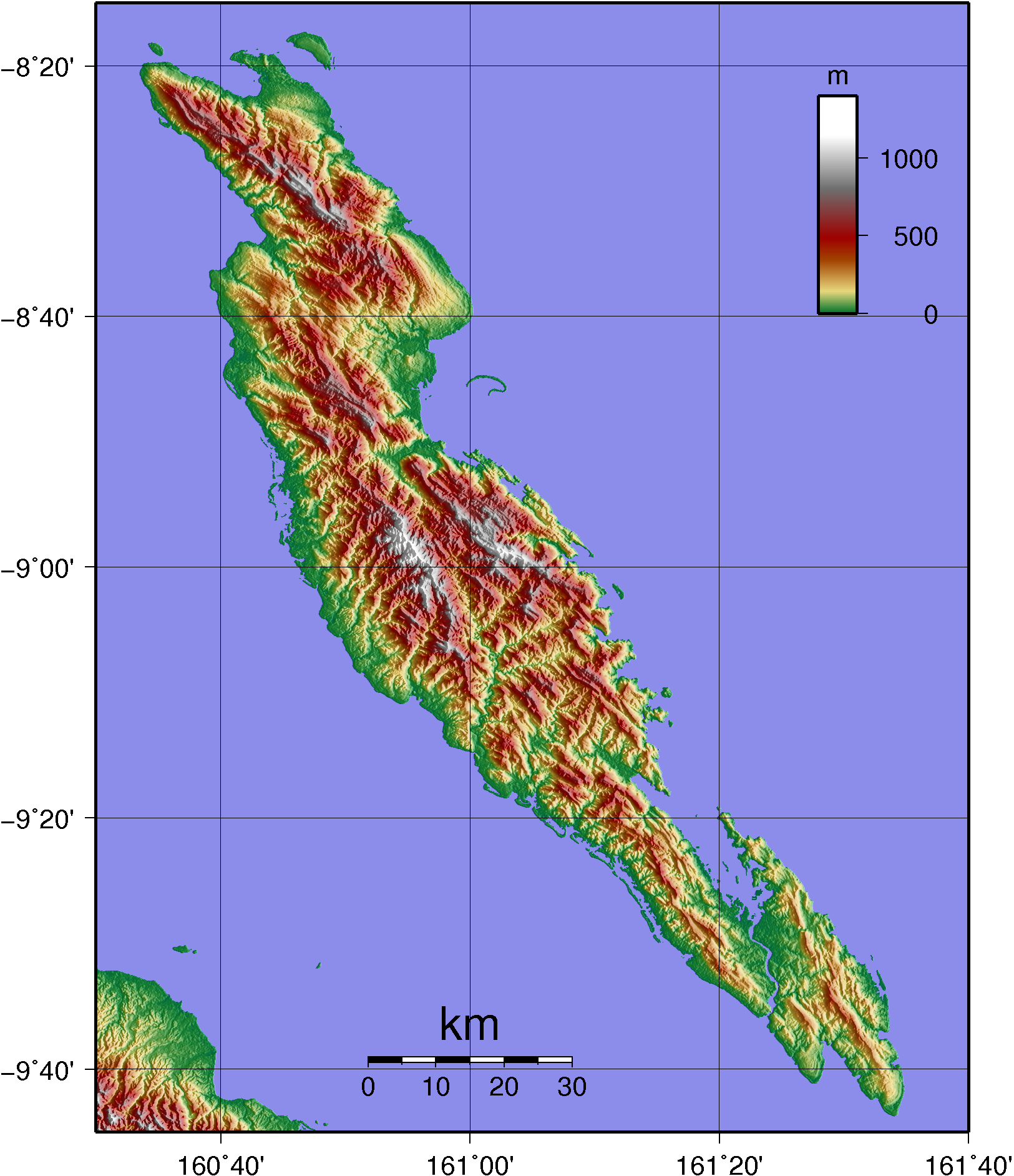 Topographical map of Malaita Island in Solomon Islands.